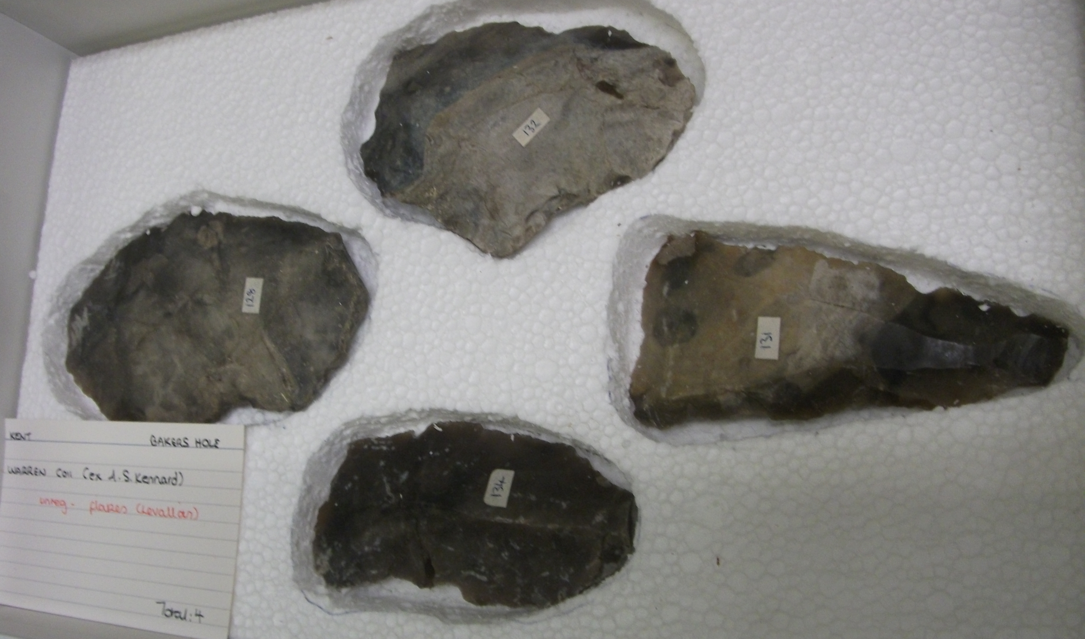 BM Ice Age Art event, October 2011